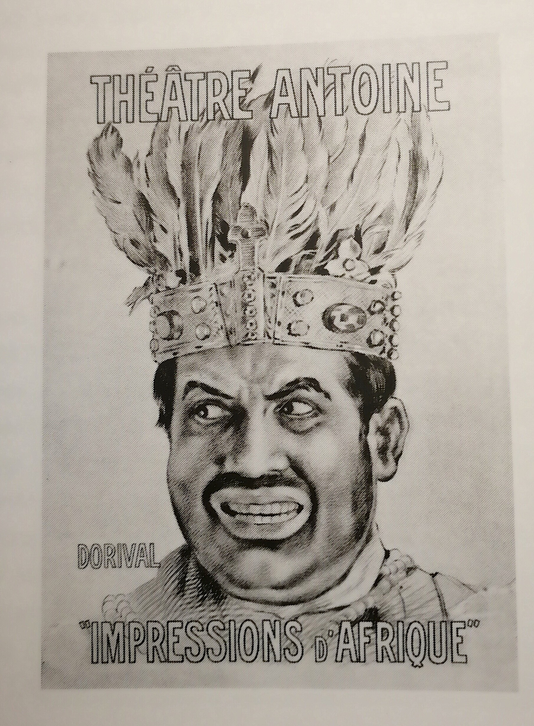 Printed Poster for Impressions d'Afrique, from Raymond Roussel's novel Impressions d'Afrique, enacted by the actor Georges Dorival as King Talou VII — Théâtre Antoine, Paris.